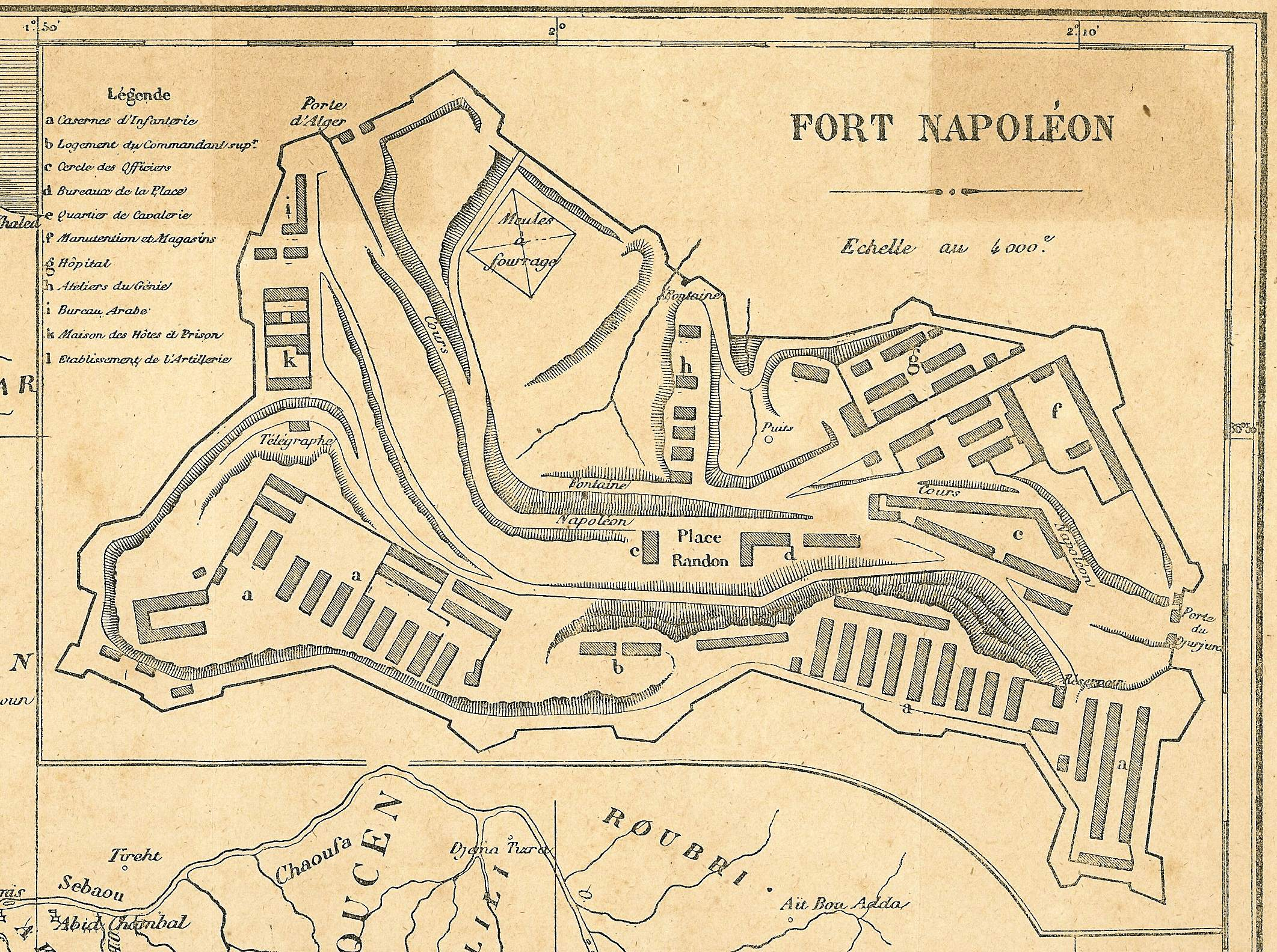 A map of Fort Napoléon (Kabylia-Algeria), scanned from the book: Emile Carrey, Récits de Kabylie, Paris 1858 (as such, PD-old)